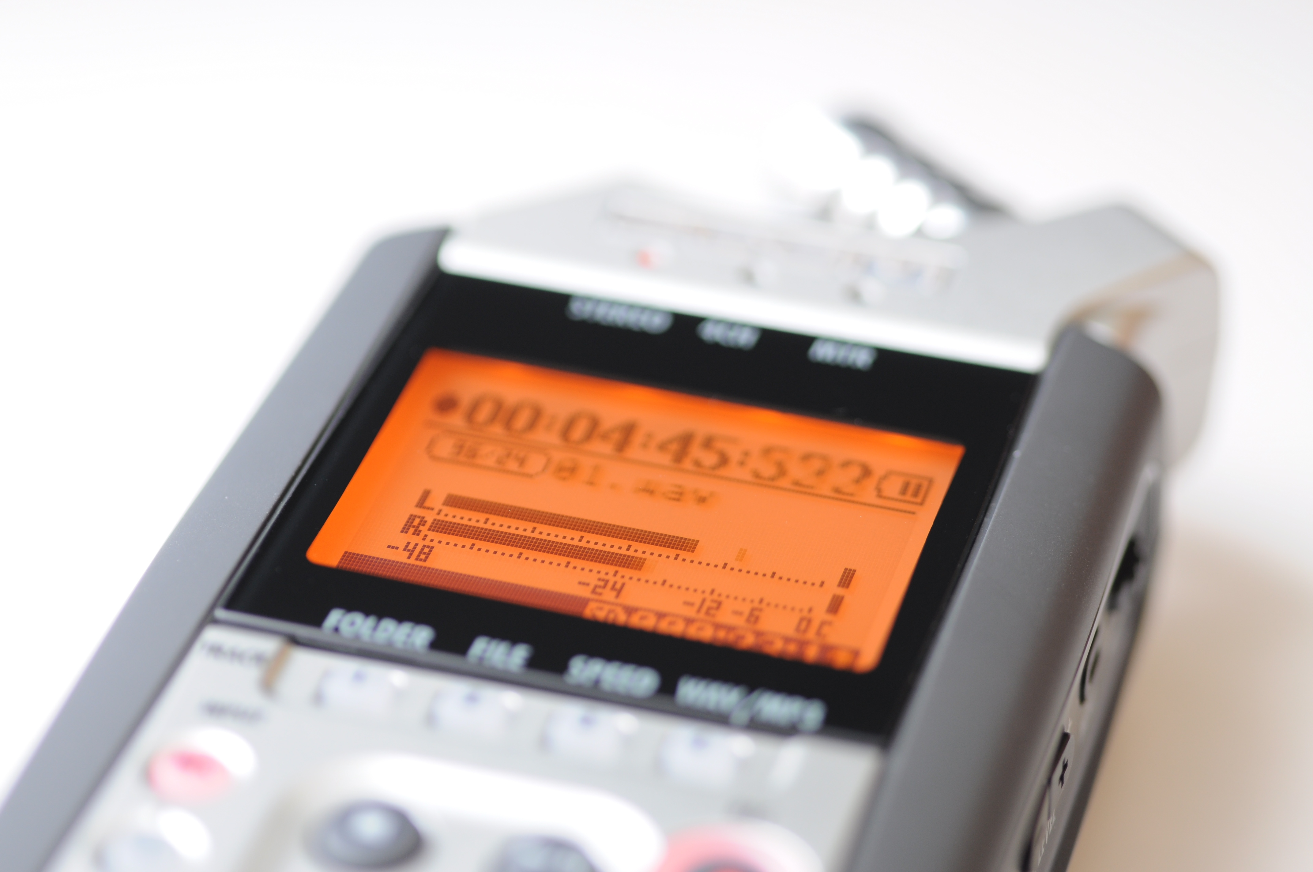 Audio levels shown on a Zoom H4n while recording